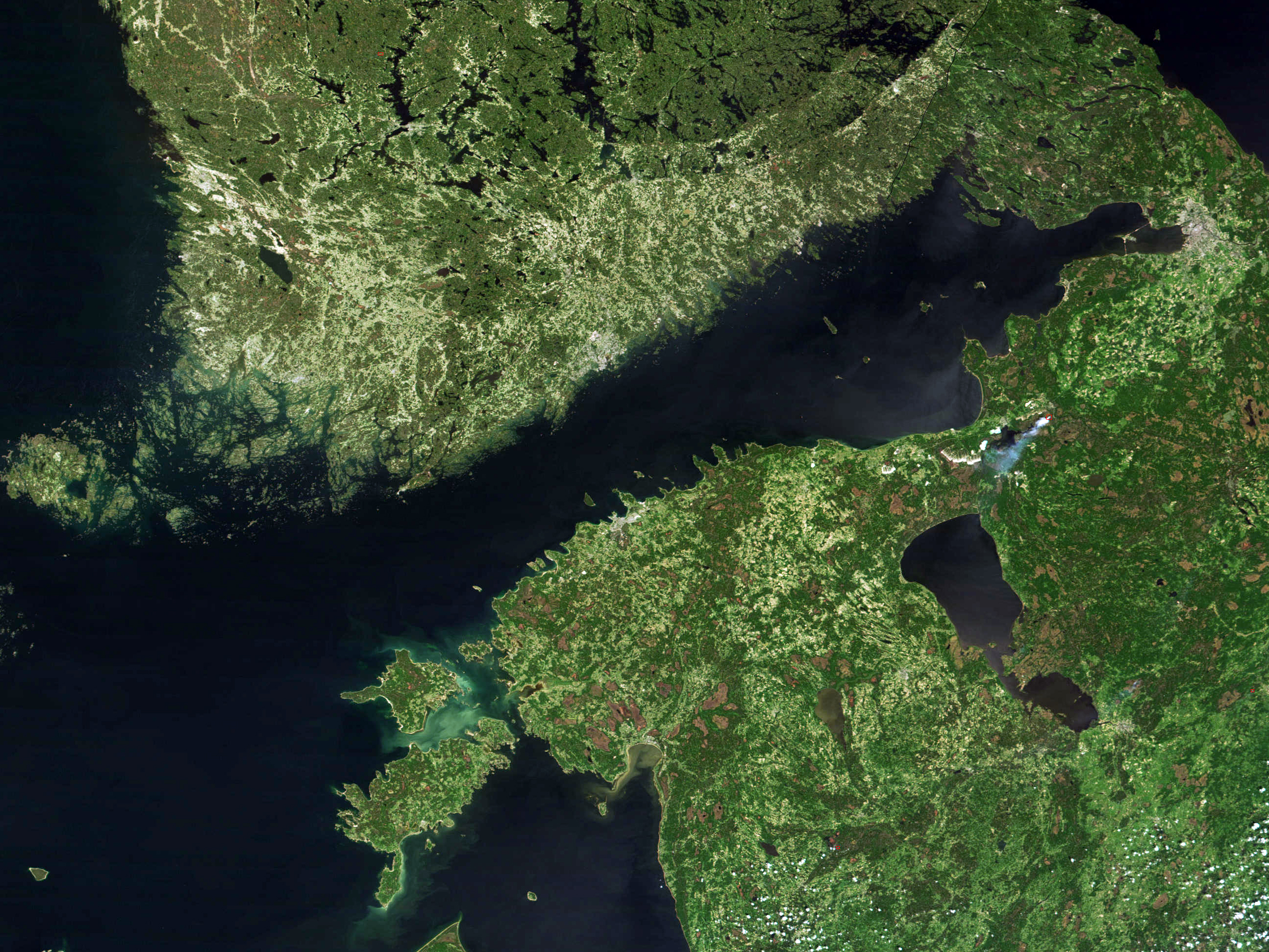 Gulf of Finland